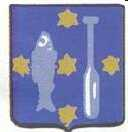 Coat of arms of Tiszaladány, Hungary